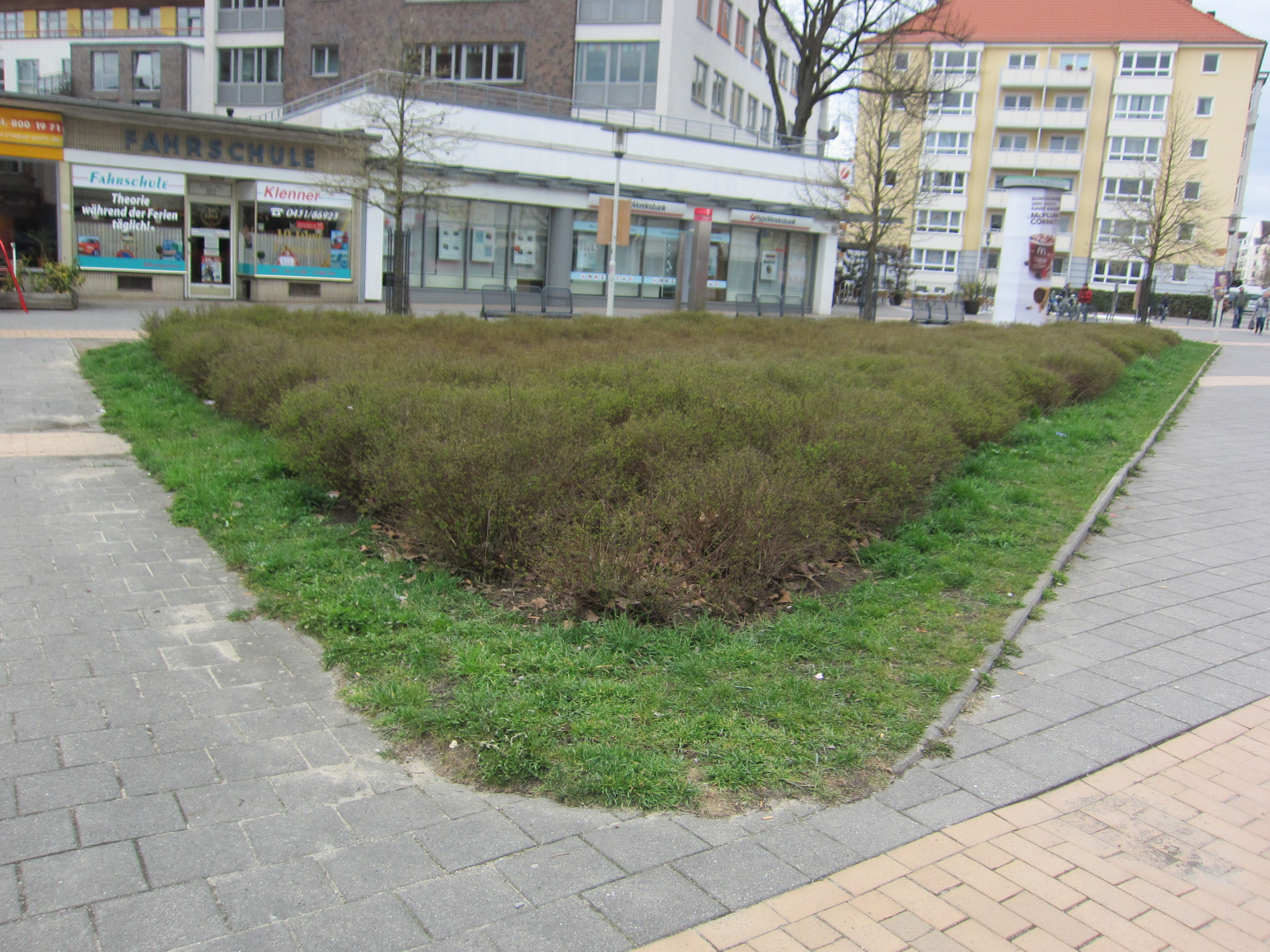 Square "Bernhard-Minetti-Platz" in Kiel-Blücherplatz